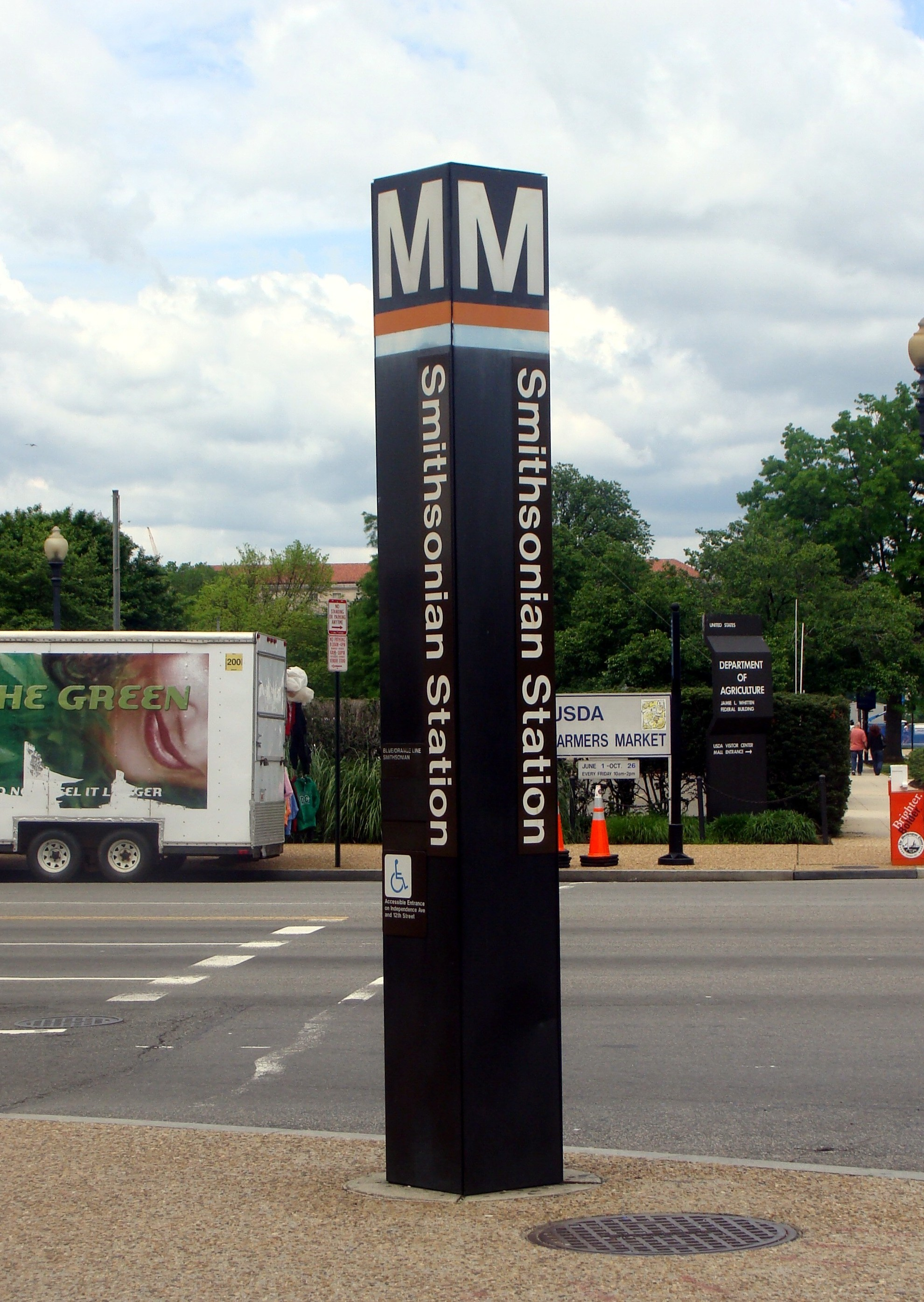 The station entrance pylon for the Washington Metro station Smithsonian.